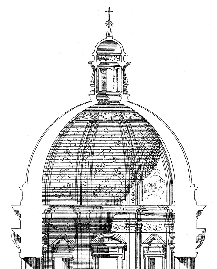 Kuppel und Laterne der Cappella del Presepio an Santa Maria Maggiore in Rom. Quelle: Wilhelm Lübke, Max Semrau: Grundriß der Kunstgeschichte. Paul Neff Verlag, Esslingen, 14. Auflage 1908. Public Domain (roughly: Dome and lantern of the Cappella del Presepio at Santa Maria Maggiore in Rome. Source: William Luebke, Max Semrau: Sketch of the history of art. Paul Neff publishing house, Esslingen, 14. Edition 1908. Public domain)